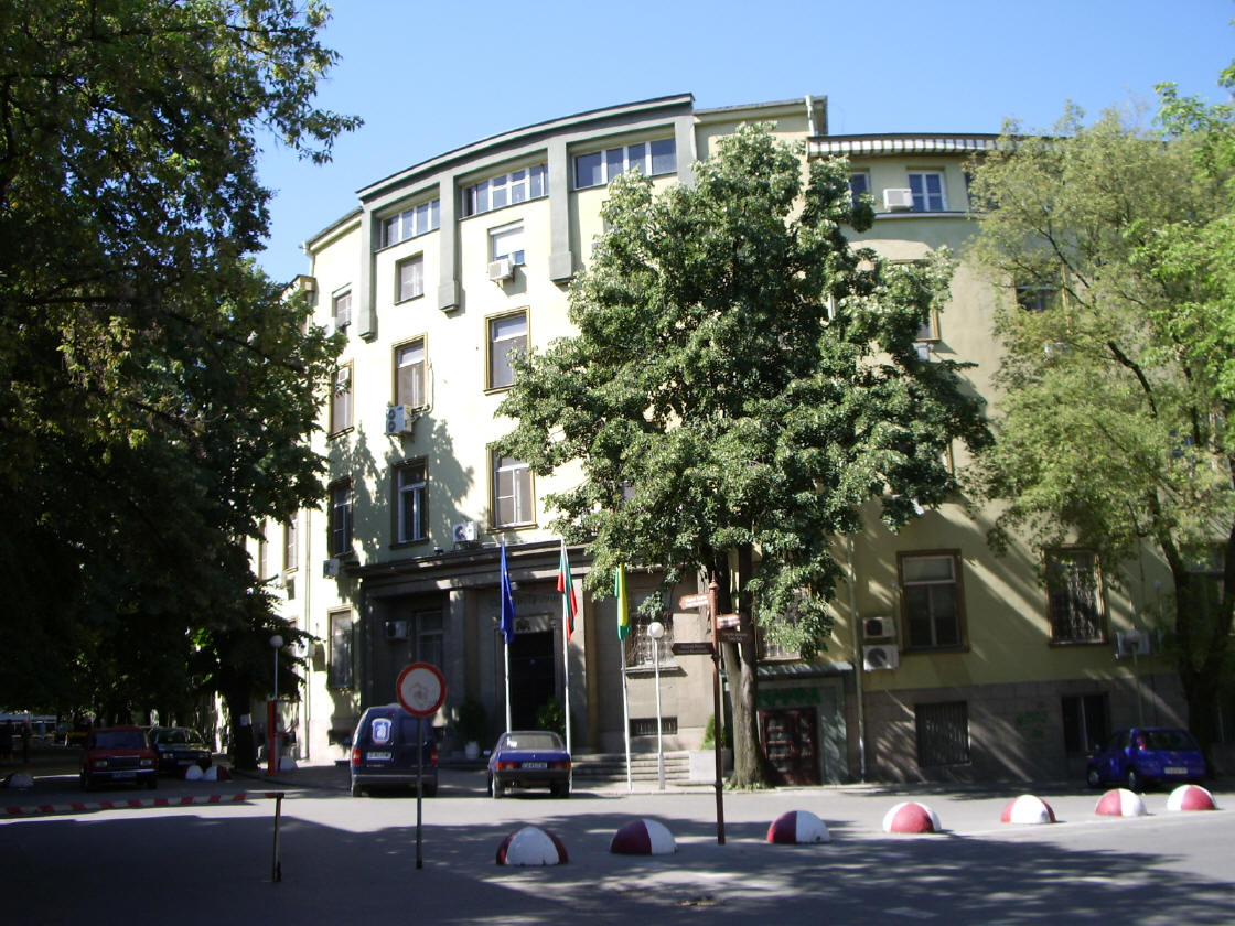 Building of the regional court, Yambol, Bulgaria